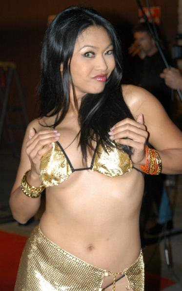 Mika Tan at Britney Rears 3 Party